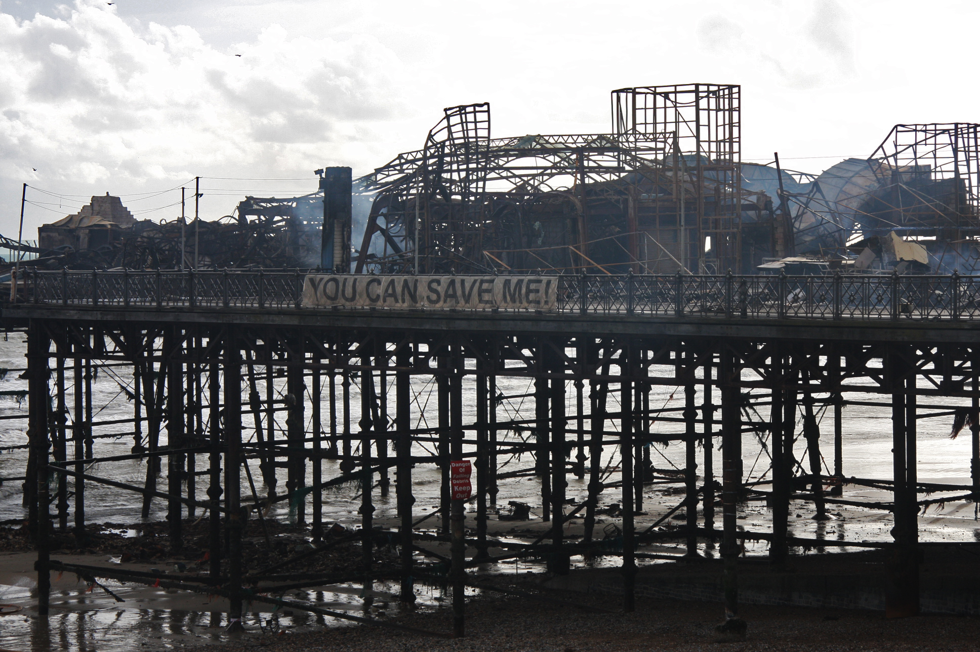 'YOU CAN SAVE ME' Sadly not. Hastings pier two days after an arson attack.